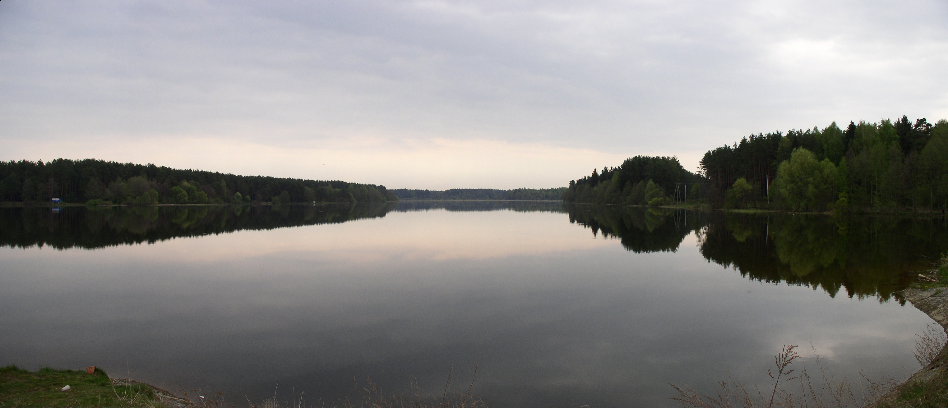 Vaskowskae reservoir, Belarus.